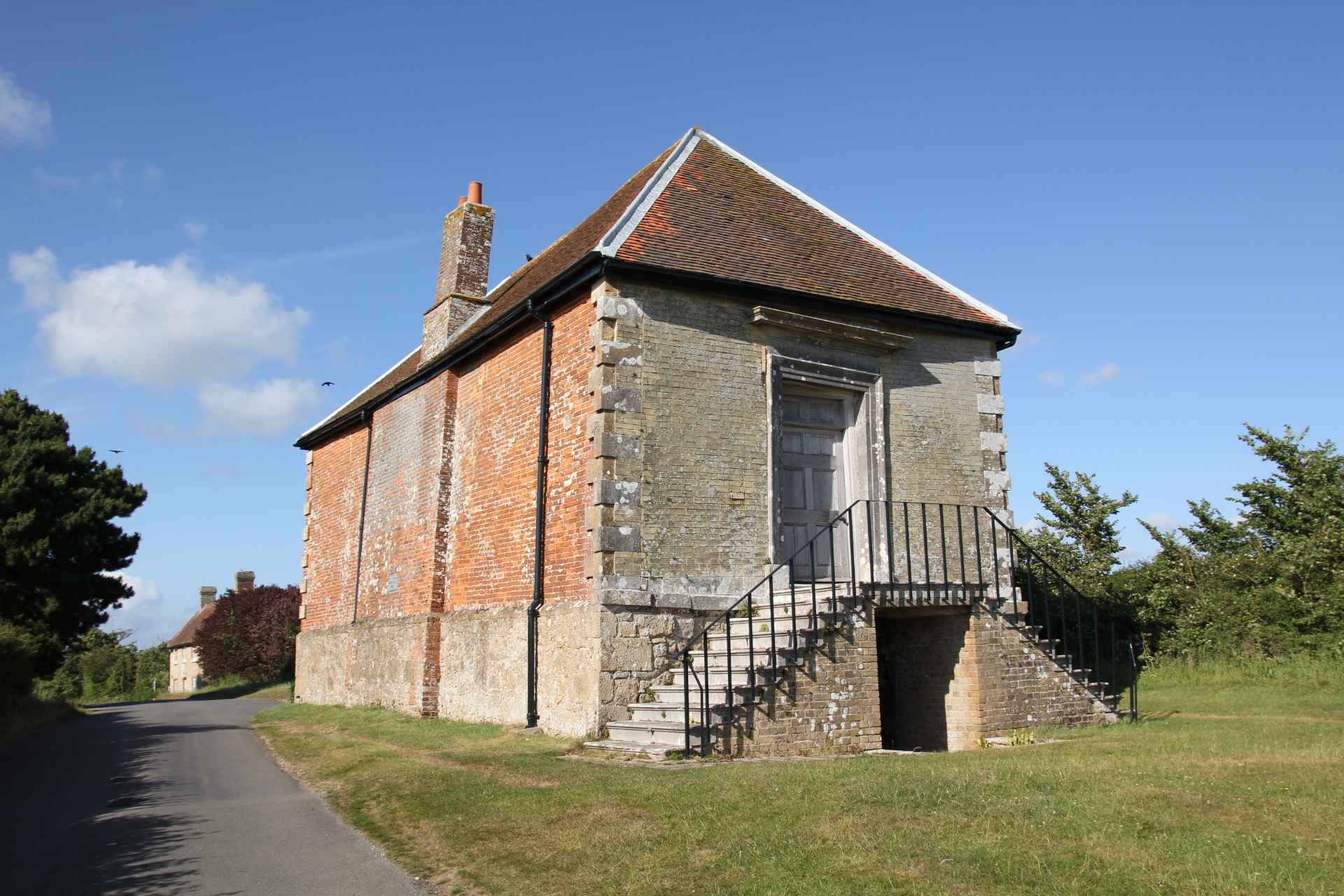 Rear aspect and entrance to Newtown Old Town Hall, Newtown, Isle of Wight.